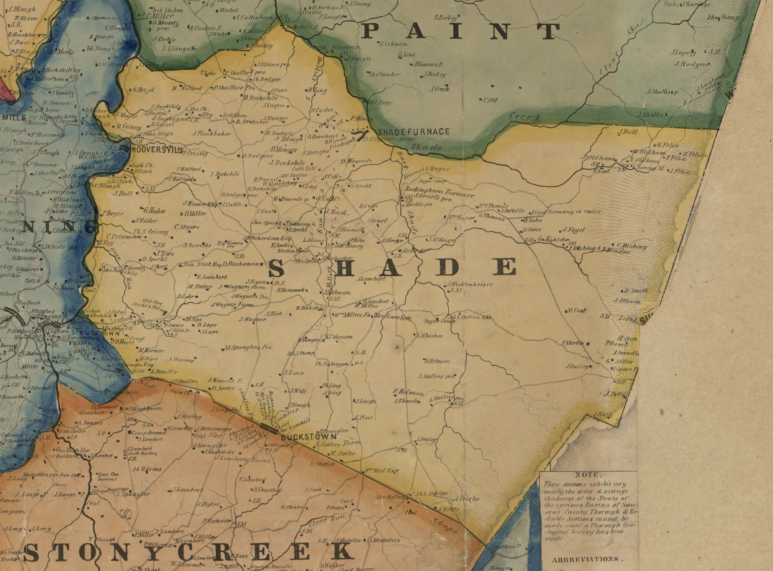 Map of Shade Township, Pennsylvania, taken from 1860 Edward L. Walker map of Somerset County available at the Library of Congress website